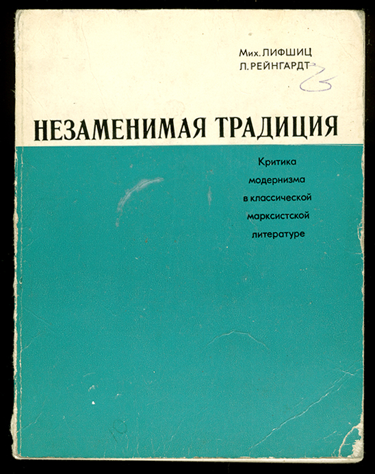 M. Lifshitz. 'The irreplaceable tradition', 1974.